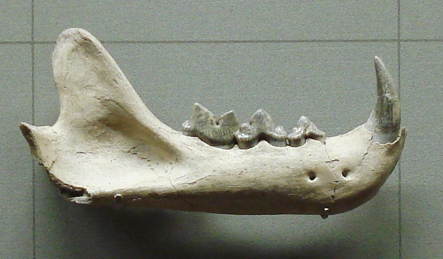 fossil of pseudaelurus